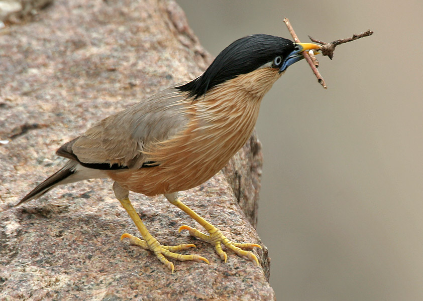 Brahminy Myna (or "Mynah") or Brahminy Starling Sturnus pagodarum with nesting material- Hindi: Brahmini myna, Puhaia, Kalasir myna, U.P.: Pabiya pawi, Pun: Bahmini maina, Ben: Monghyr pawi, Bamani myna, Harbola, Guj: Babbai, Brahmani mena, Shyamashir babbayi, Mar: Bahmany maina, Papya, Bhangpadya, Ori: Chutia bani, Ta: Kondai myna, Papata pariki, Pappatthi myna, Rawanati, Te: Papata gorinka, Mal: Karimtalaichikkili- at Pocharam lake, Andhra Pradesh, India.